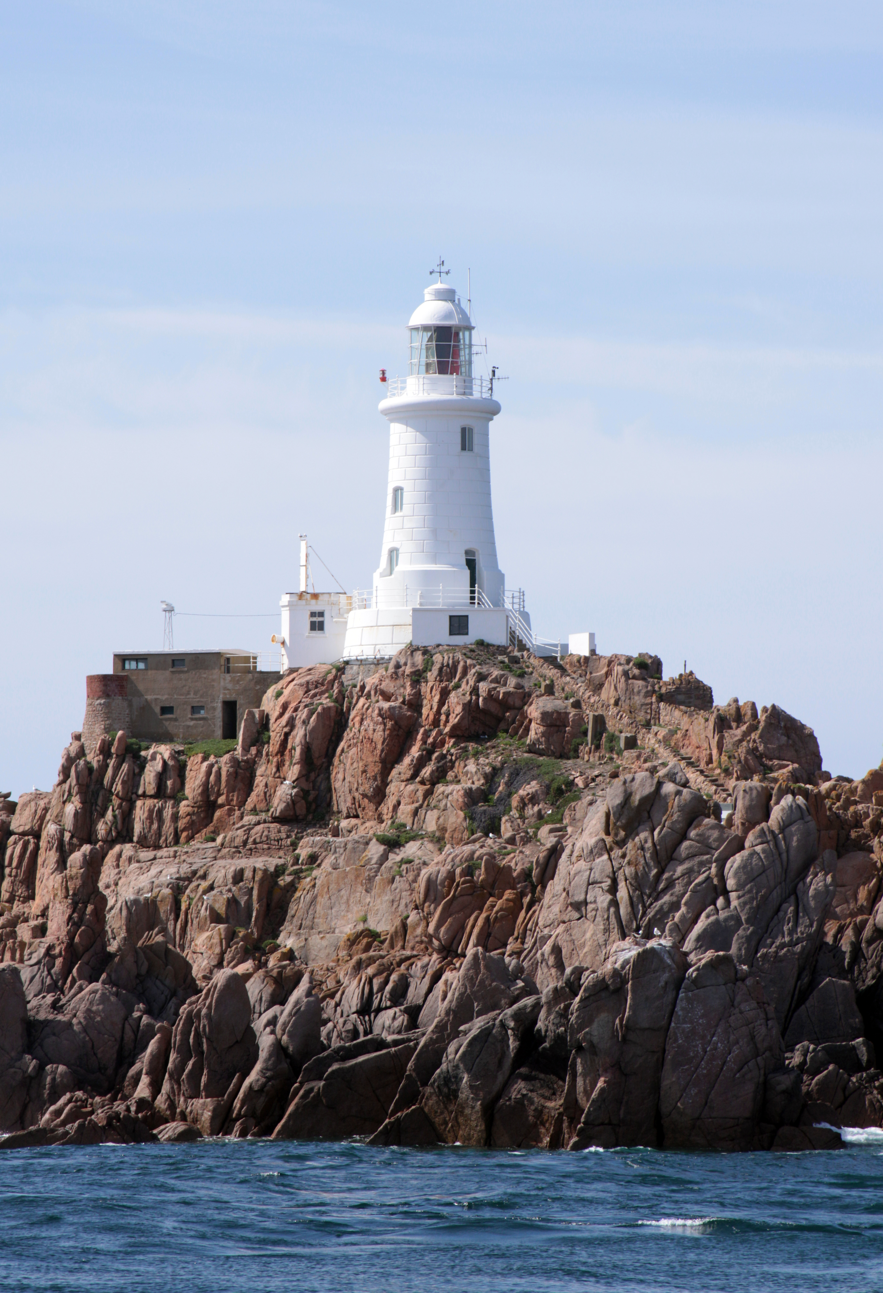 Corbiere lighthouse